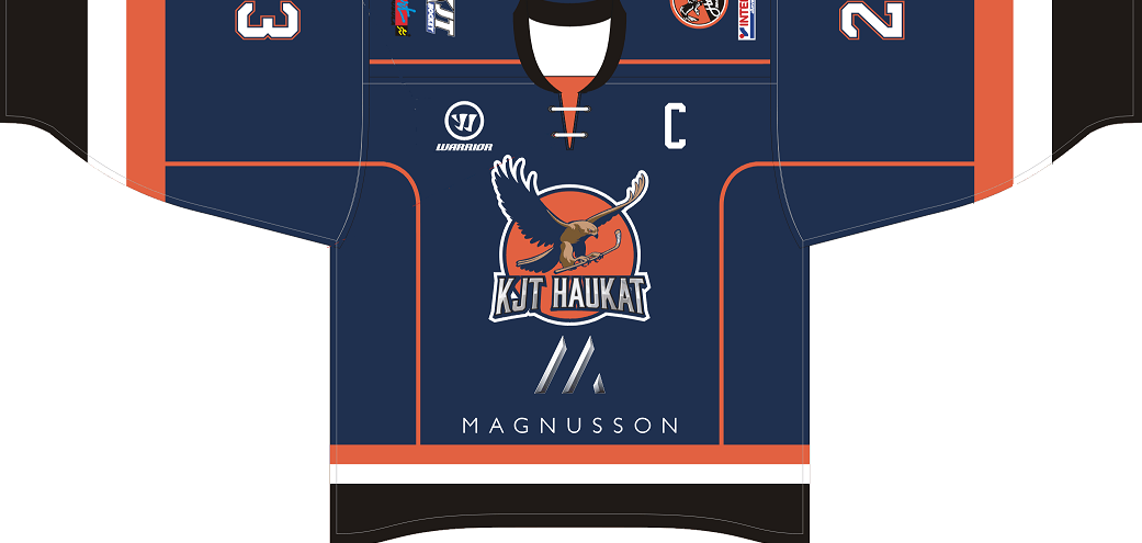 Home jersey of ice hockey team KJT Haukat